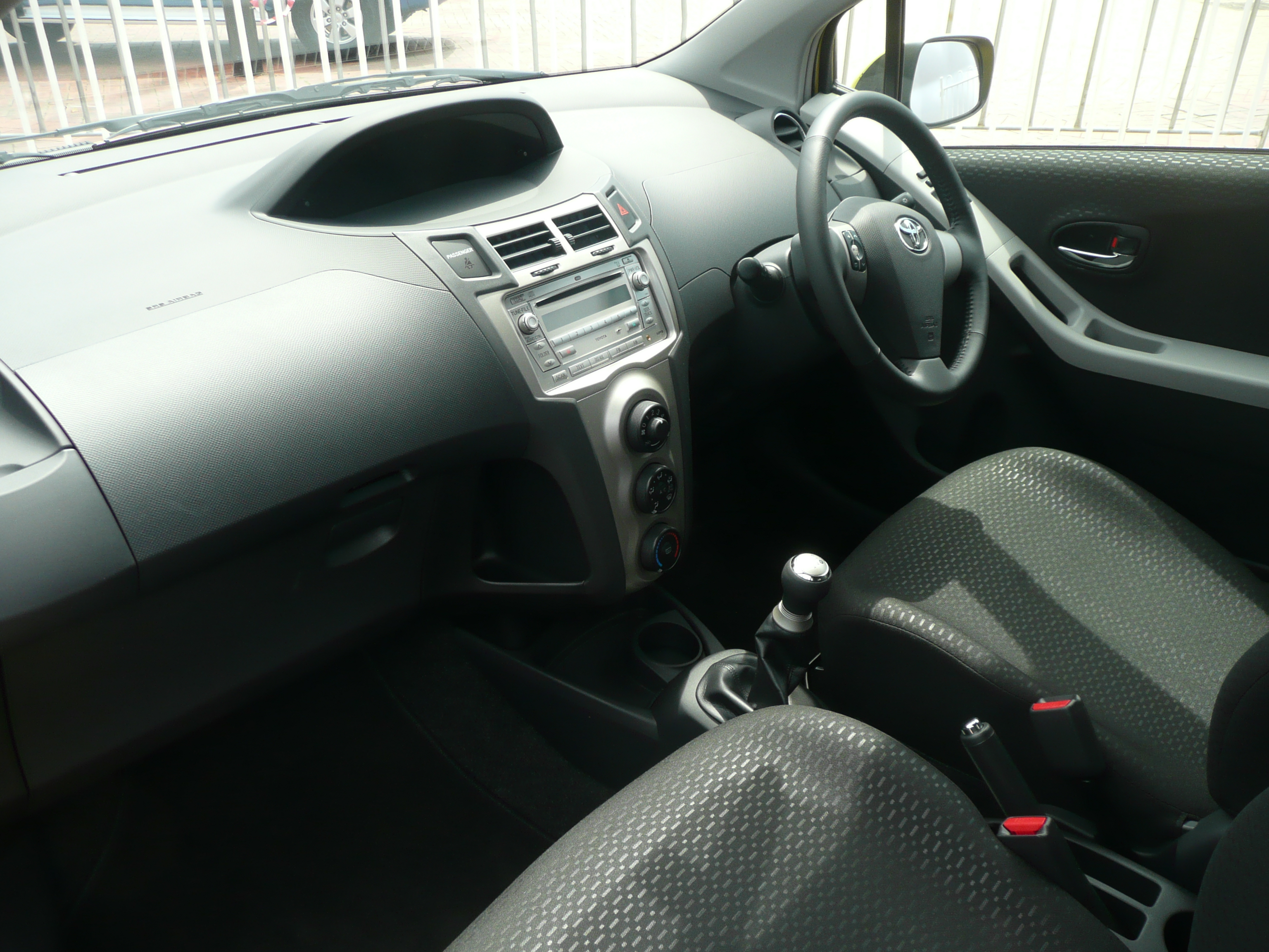 2008 Toyota Yaris (NCP91R) YRX 3-door hatchback. Photographed at the 2008 Australian International Motor Show, Sydney, New South Wales, Australia.